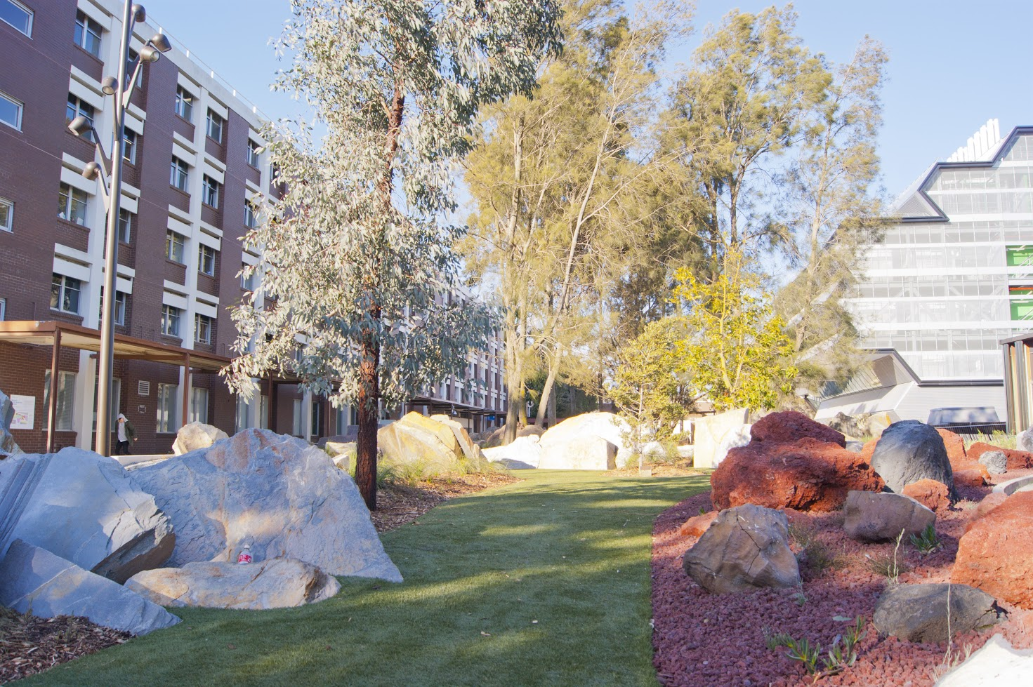 The Monash University Earth Sciences Garden located in the science precinct, Monash Clayton Campus, Melbourne, Australia.